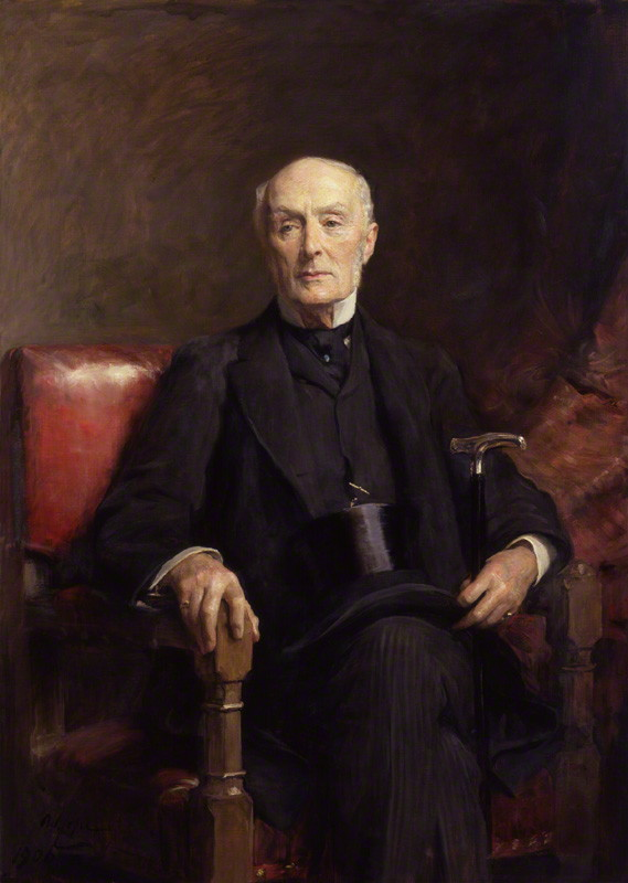 Henry Thurstan Holland, 1st Viscount Knutsford, oil on canvas, 49 in. x 35 1/4 in. (1245 mm x 895 mm)